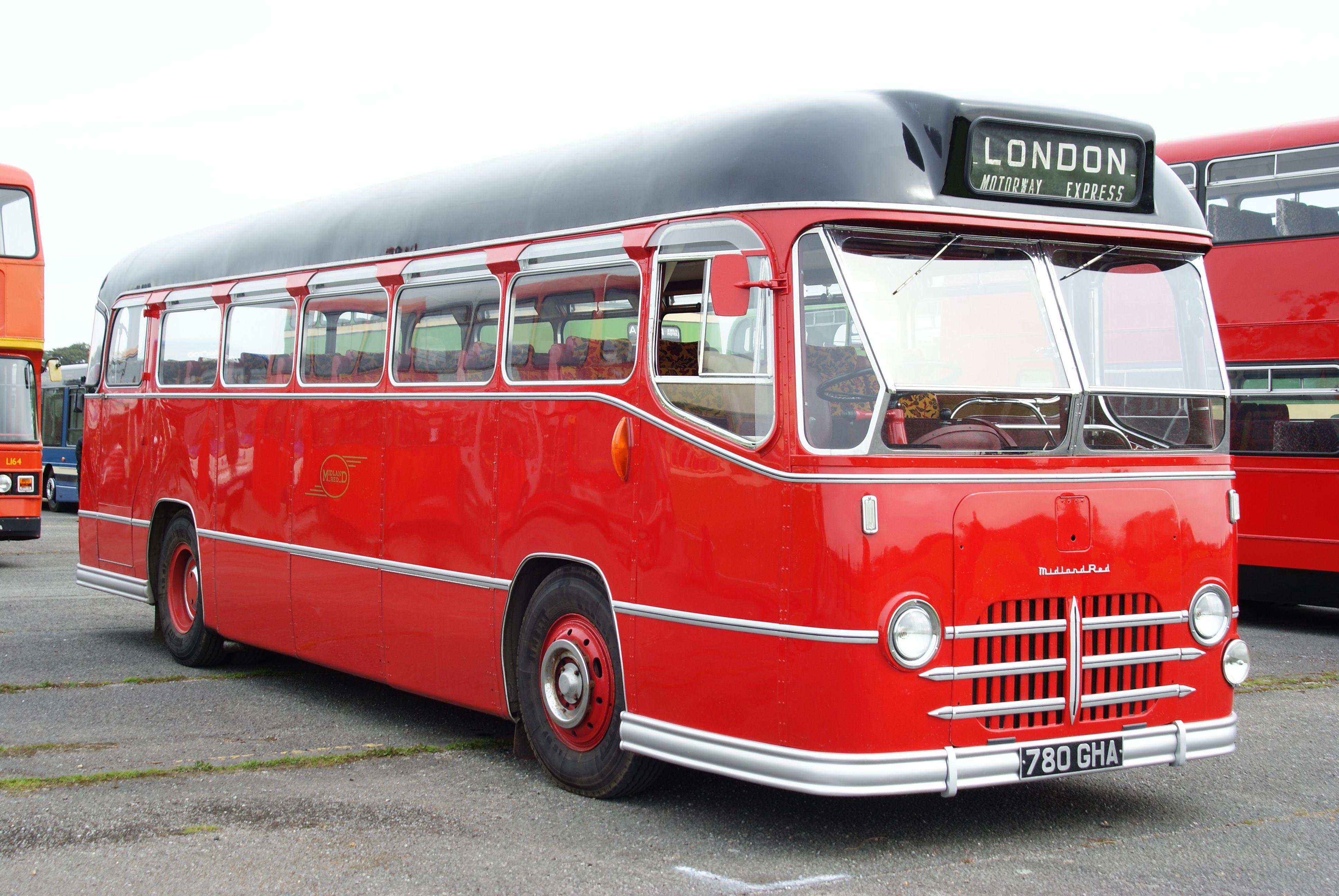 4780-3 110410 CPS